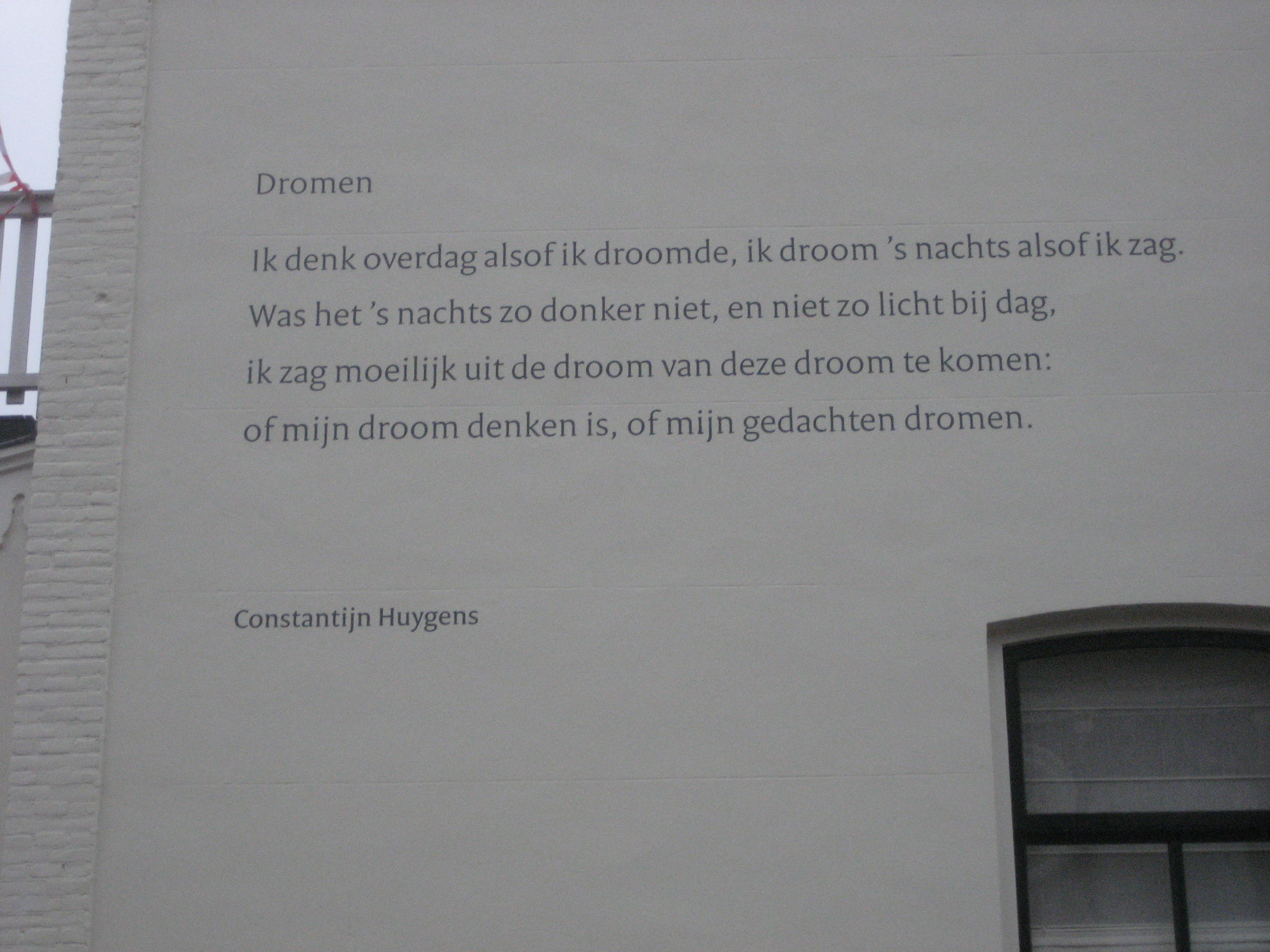 Wall poem Dromen by Constantijn Huygens in Den Haag (the Netherlands). Modern Dutch version by Frans Blom. Corner Atjehstraat & Bankastraat